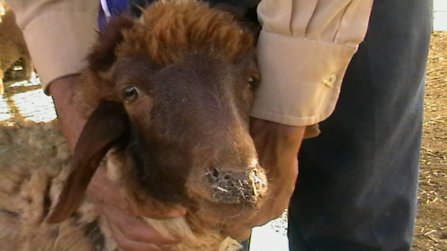 Ovine rinderpest : mucopurulent nasal discharge Walon: Pesse des bedots et des gades : placante nåze ki va ristoper les narenes